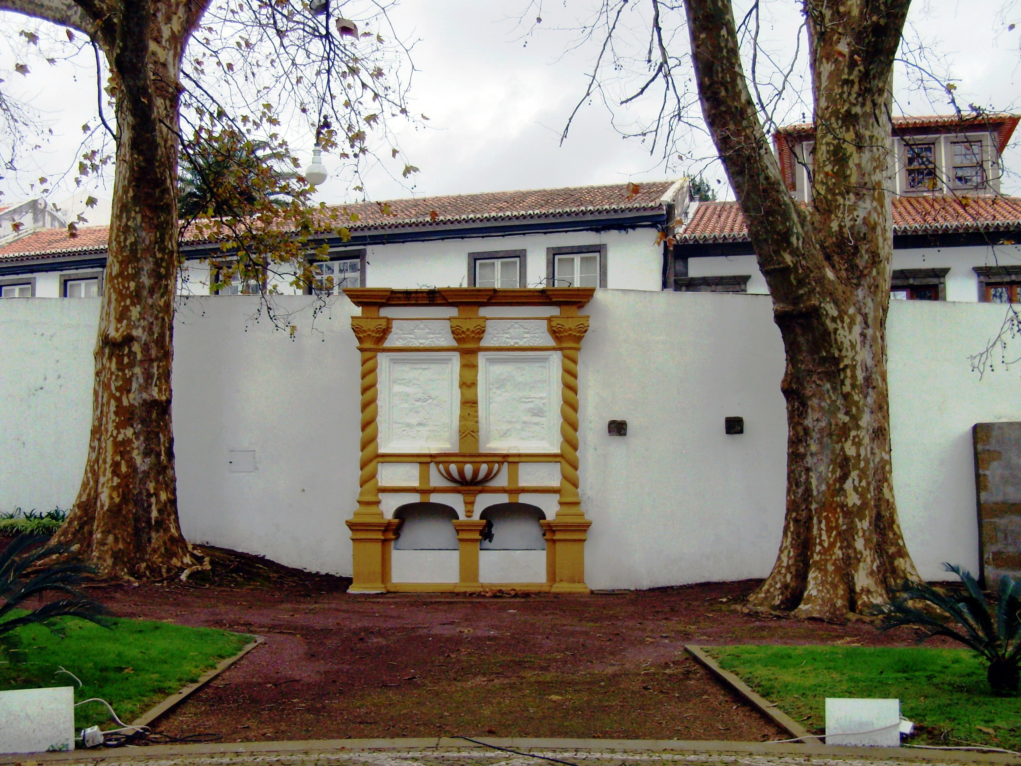 Garden fountain from the Palácio dos Capitães Generais, Angra do Heroísmo, Terceira (Azores), Portugal